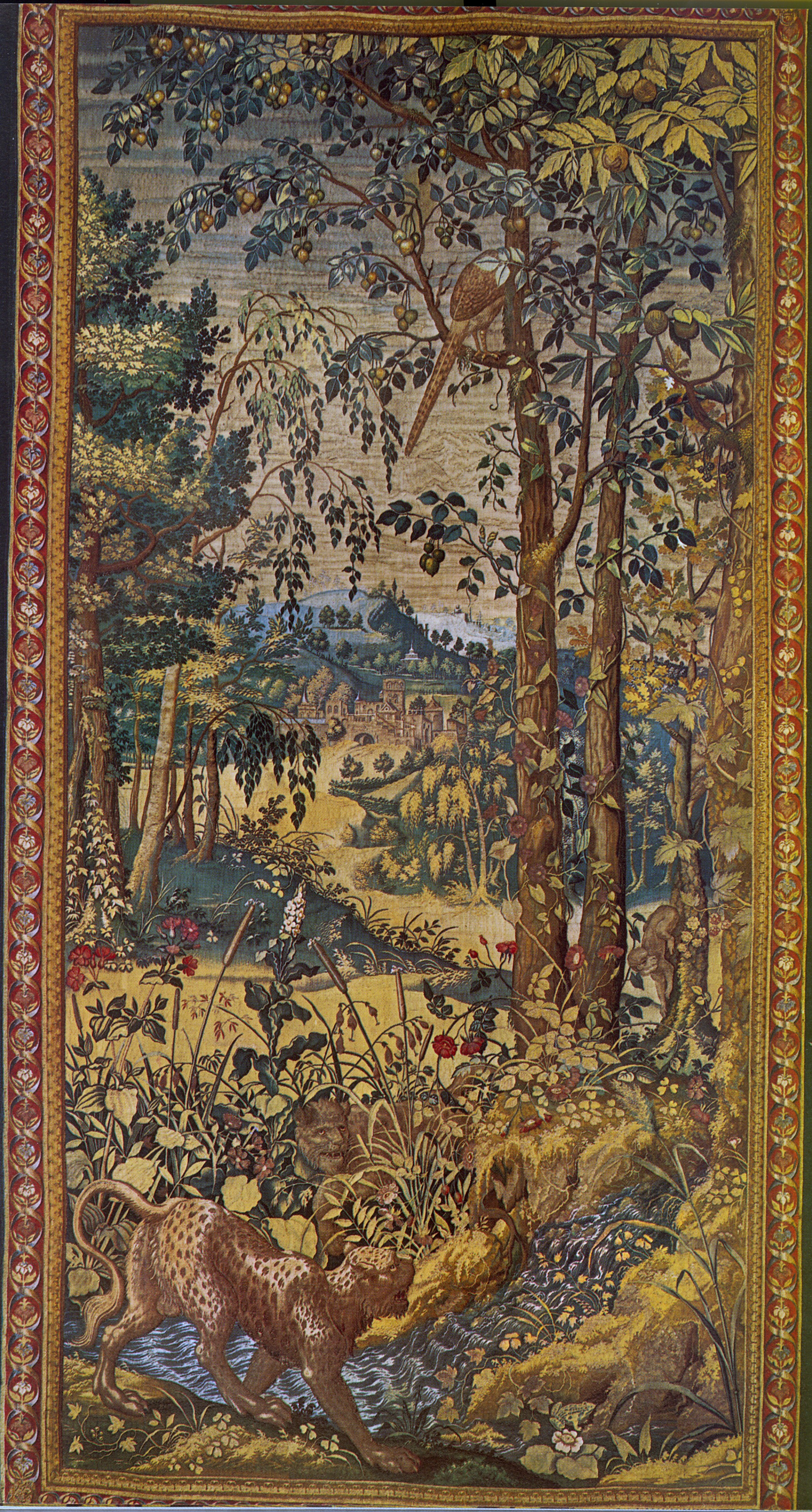 Two leopards, pheasant and prosimian - verdure.